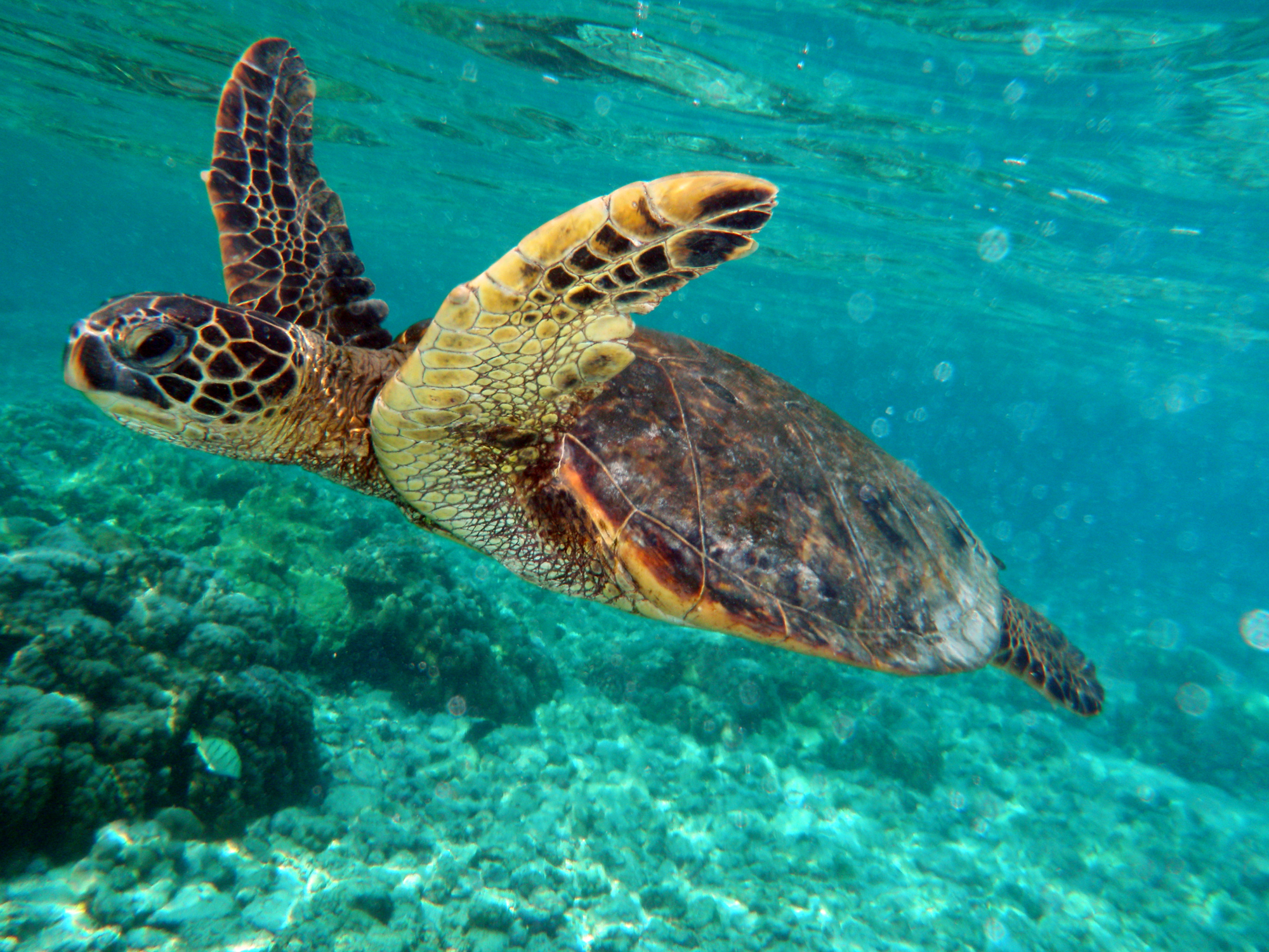 Green turle ,Chelonia mydas in Kona